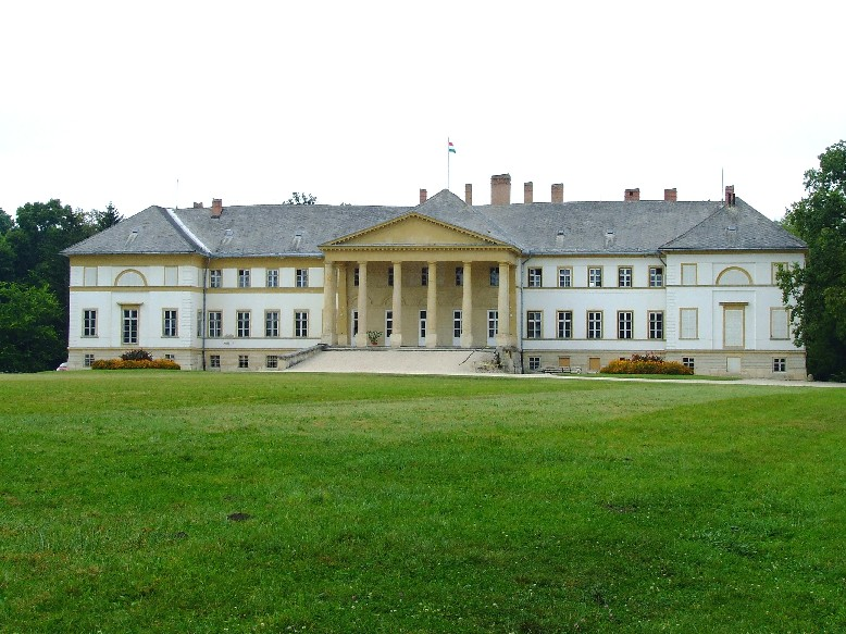 Festetics Palace, Dég, Hungary